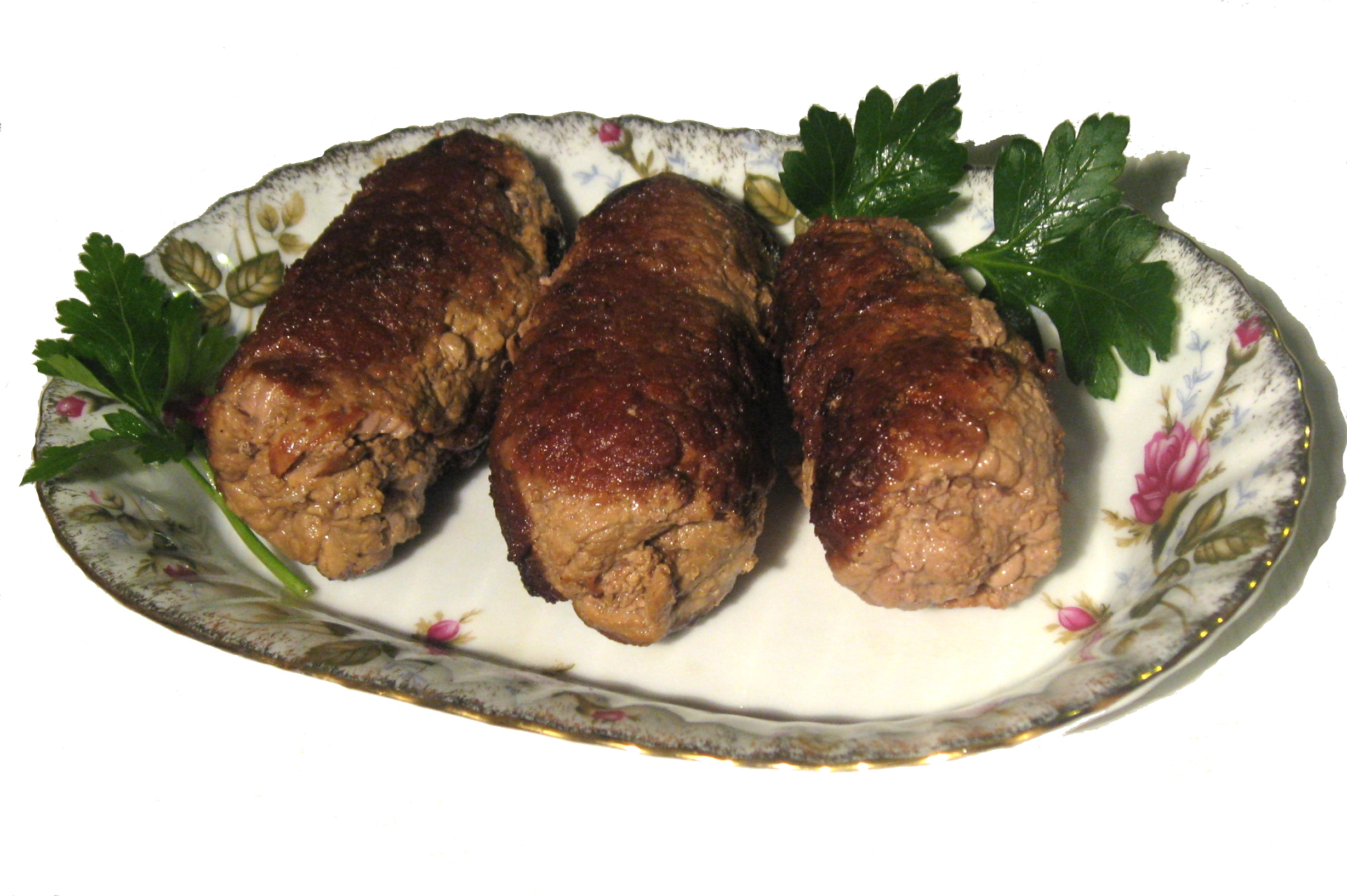 Zrazy - Polish meat dish